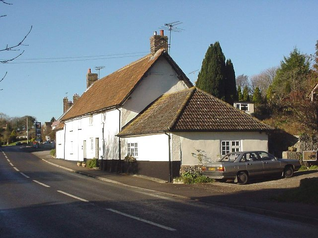 Home of George Loveless, Tolpuddle Martyr, Tolpuddle, Dorset, UK.